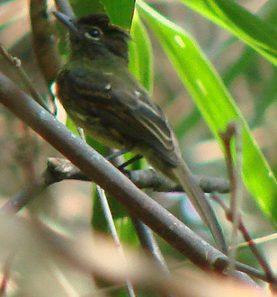 Ramphotrigon_fuscicauda - Dusky-tailed Flatbill